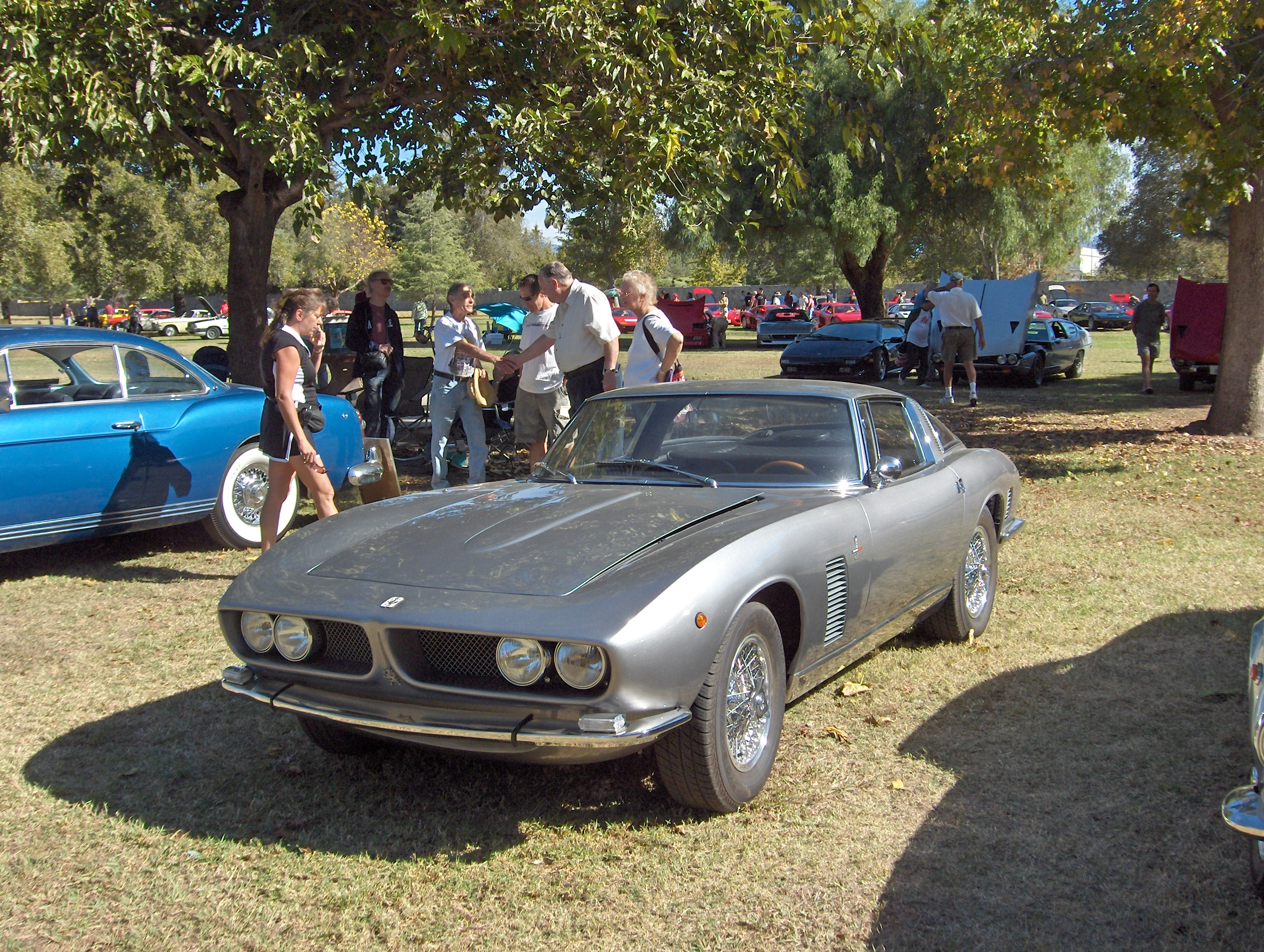 Own photo - public location.